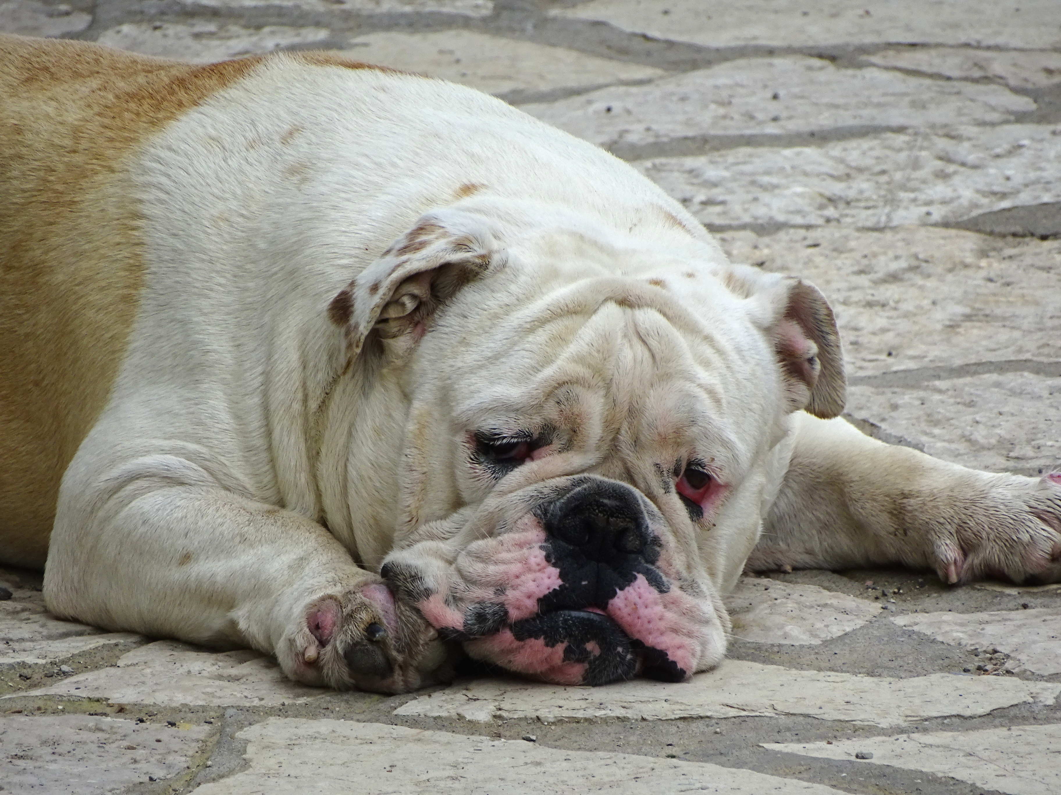 Bulldog at Rest - Palaiokastritsa - Corfu - Greece